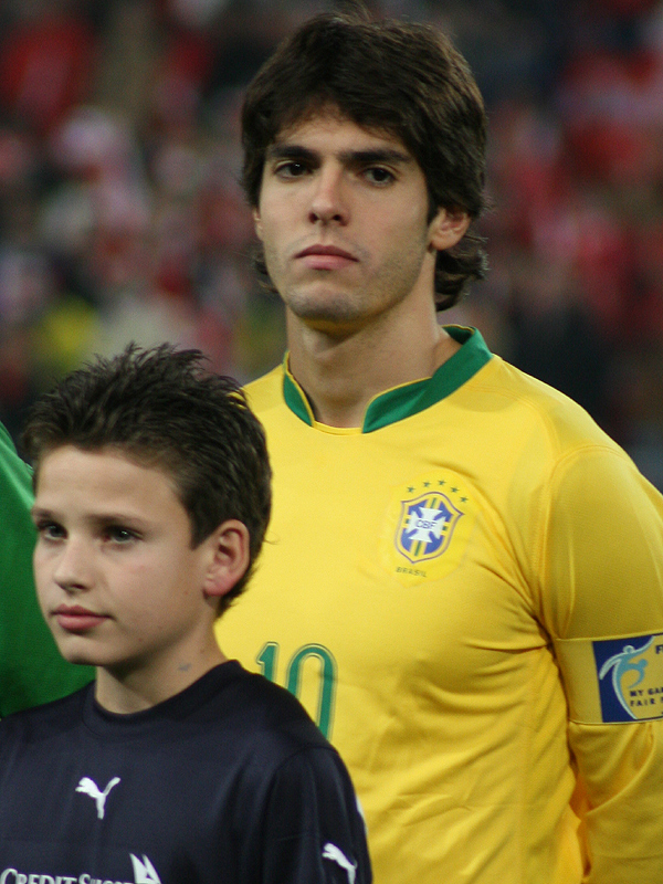 Ricardo Izecson dos Santos Leite (Kaká), St. Jakob Stadion, Basel (Switzerland), Switzerland - Brasil (1-2)